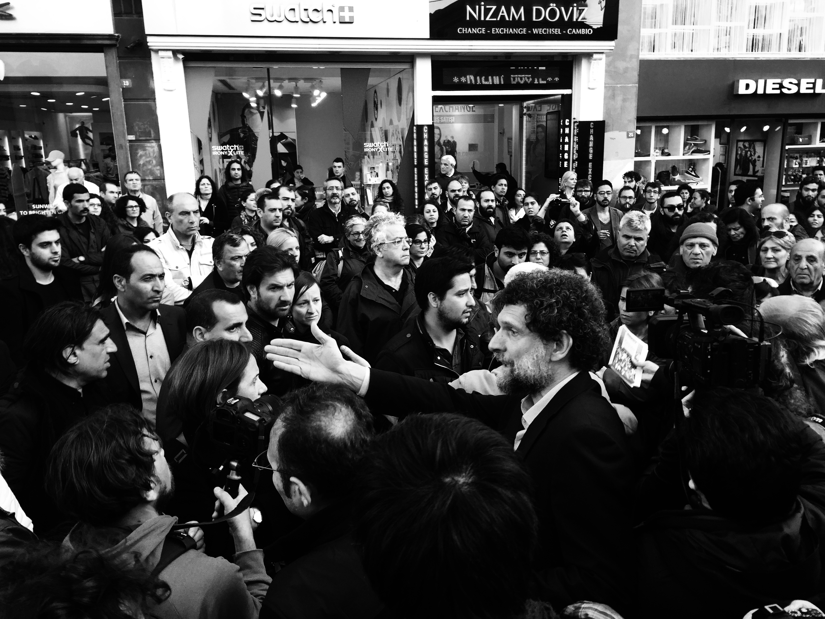 Osman Kavala at the Armenian Genocide centennial commemoration near Taksim Square, Istanbul (Photo: Rupen Janbazian, 2015)